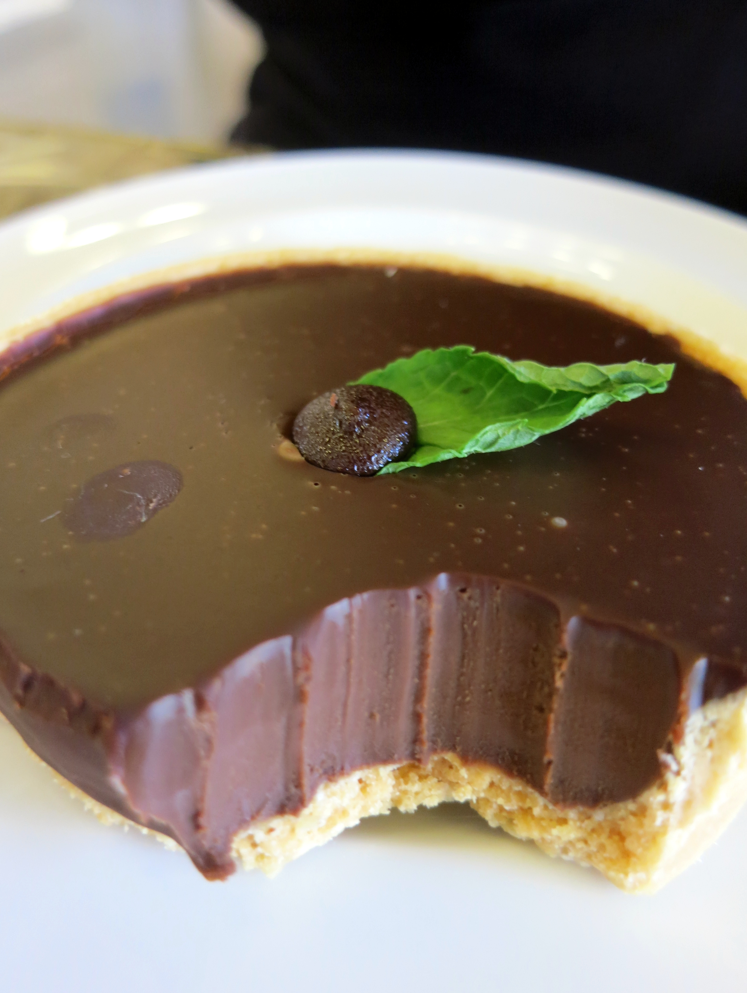 This is a picture of a Chocolate mint ganache.